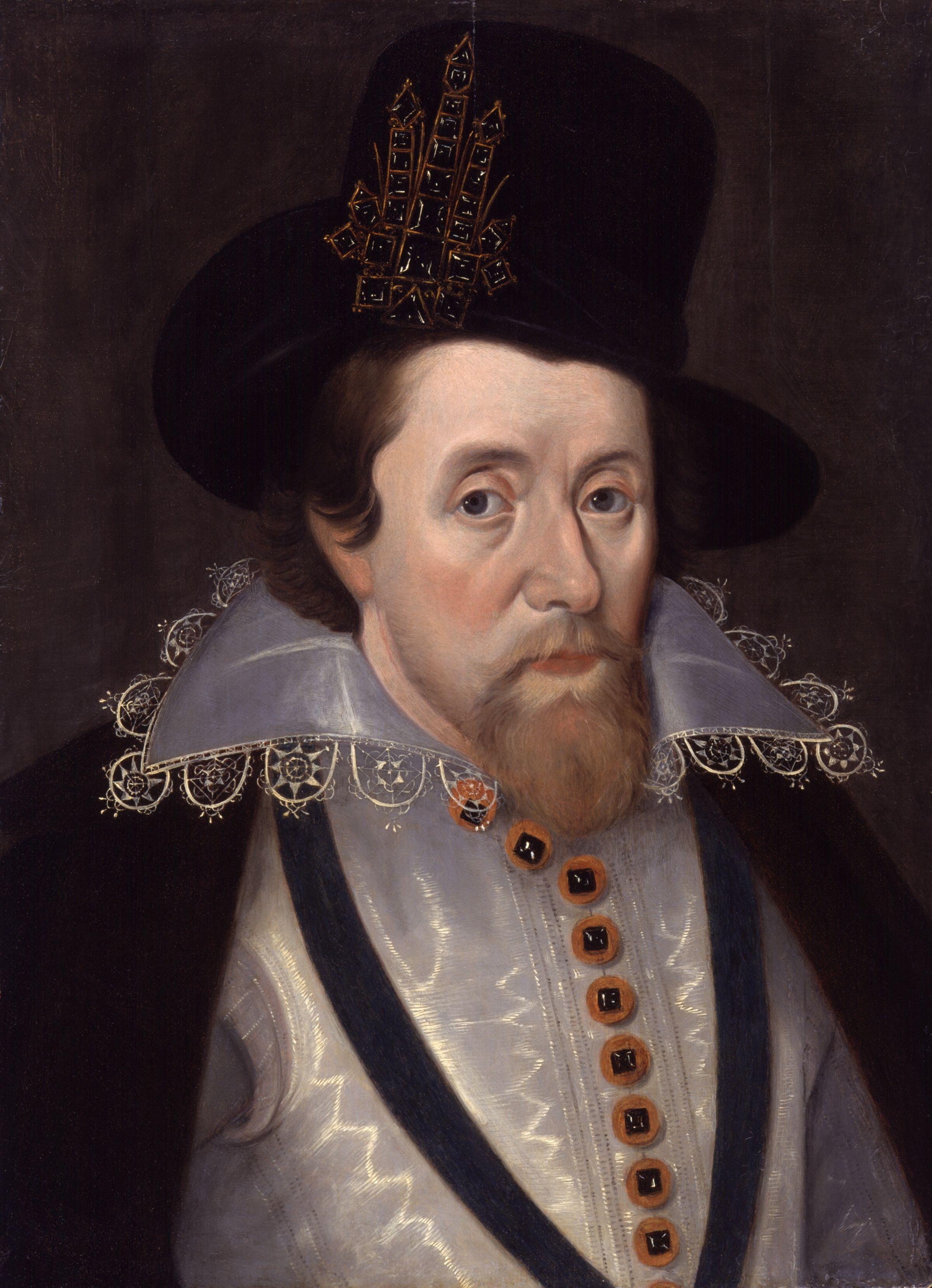 King James I of England and VI of Scotland, after John De Critz the Elder (died 1647). All images in this batch have been confirmed as author died before 1939 according to the official death date listed by the NPG.